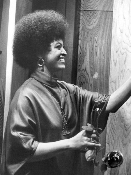 Photo of actress Gloria Foster.